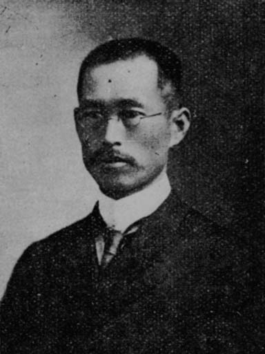 Mr. Manji Ikoma, inspector of the Department of Education and professor of the Tokyo Higher Normal School.